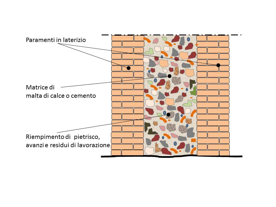 Rubble masonry. Extenal brick walls, rubble fill.Unknown muro a sacco con paramenti pietra, riempimento in pietrisco e residui di lavorazione (tipico muro a sacco romano - opus coementicium)